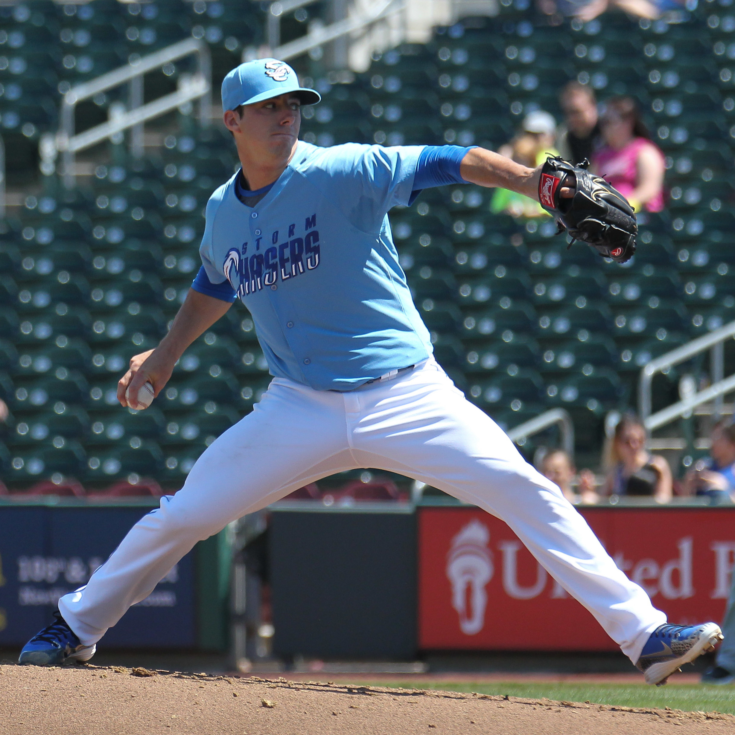 Heath Fillmyer pitching for the Omaha Storm Chasers in 2018